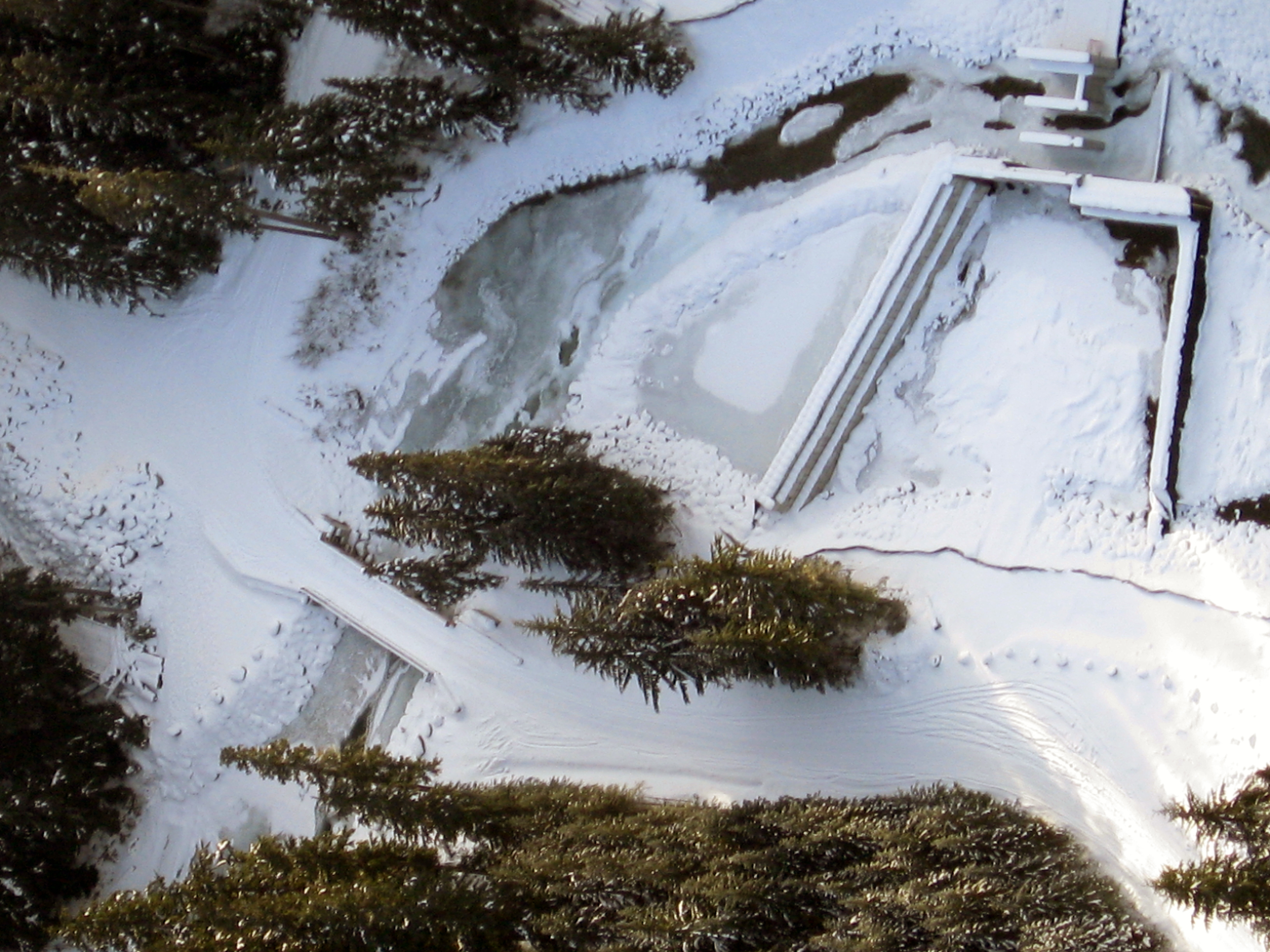 According to the Whistler Blackcomb website, this power station produces enough power to match the total annual energy consumption at Whistler Blackcomb. The project returns the power it generates back to the grid, essentially replacing what Whistler Blackcomb takes from the grid. It is a run-of-river project that produces 33 gigawatt hours of hydro electricity per year – the equivalent of powering the ski resort’s winter and summer operations including 38 lifts, 17 restaurants, 270 snowguns and other buildings and services.